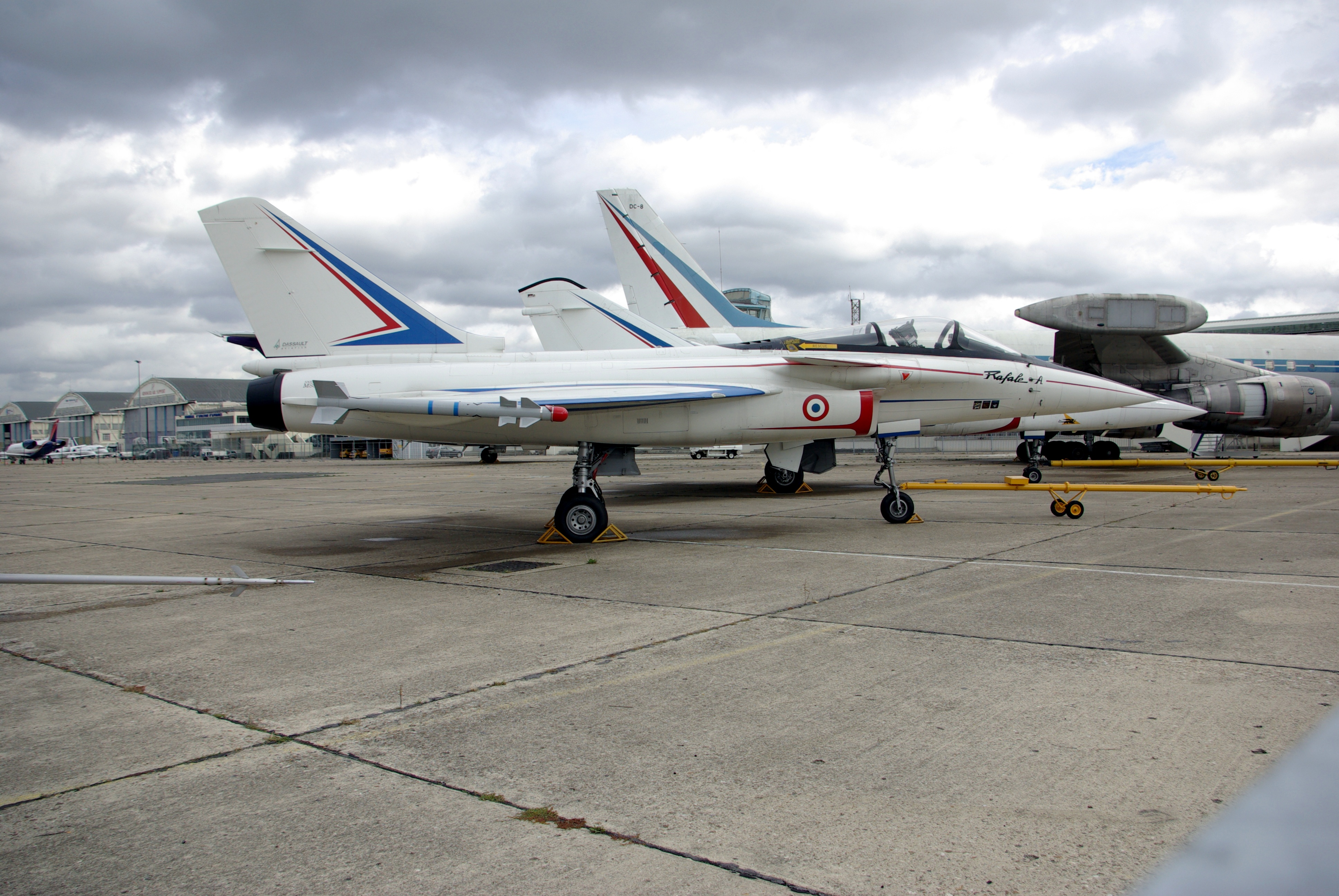 The Dassault Rafale A exhibited at the Air & Space Museum at Le Bourget, France.